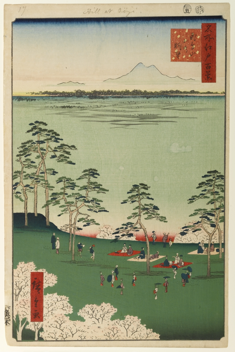 Part of the series One Hundred Famous Views of Edo, no. 017, part 1: Spring.